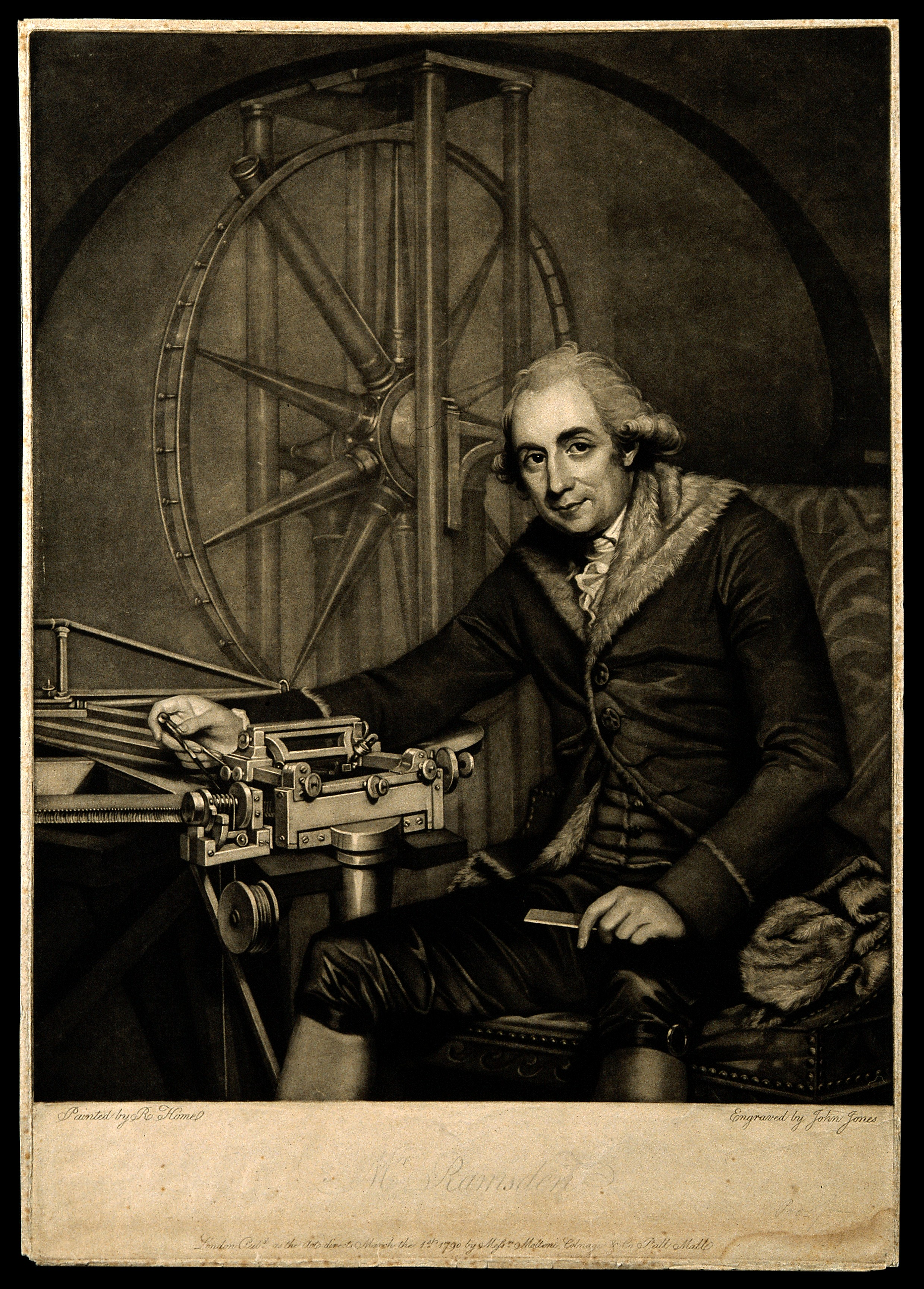 Jesse Ramsden. Mezzotint by J. Jones, 1790, after Robert Home. The original portrait by Home is in the Royal Society. This shows Ramsden with the dividing instrument before him. In the background is the great circle made for the Palermo observatory. Although he never wore fur coats, it was added by the artist as he had worked for the Emperor of Russia. This is the only portrait of Jesse Ramsden. Iconographic Collections Keywords: portrait prints; mezzotints; Jesse Ramsden